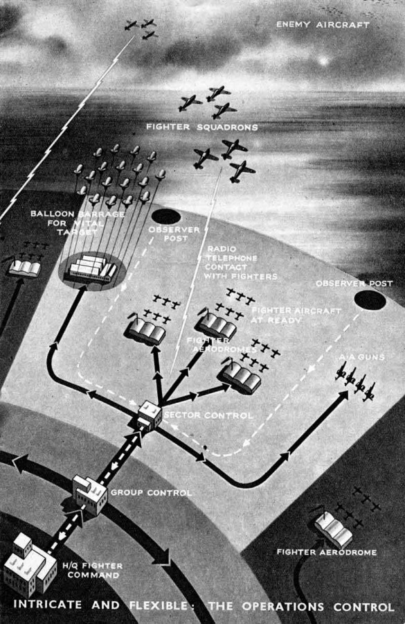 An illustration of the "Dowding System" of defensive air control, from a 1941 Air Ministry pamphlet. In the lower left is the overall control system at Fighter Command HQ at Bentley Priory, shown dis